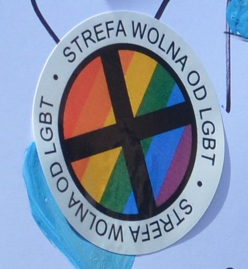 Gazeta Polska stickers